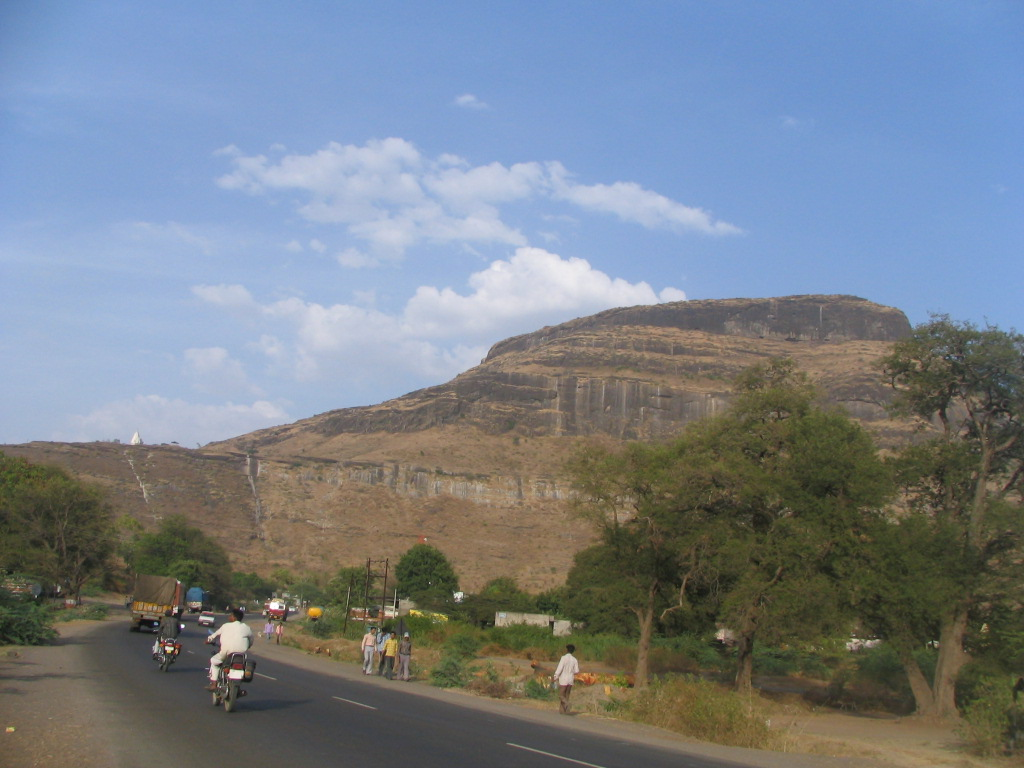 NH3 at chandwad with scenic hills behind